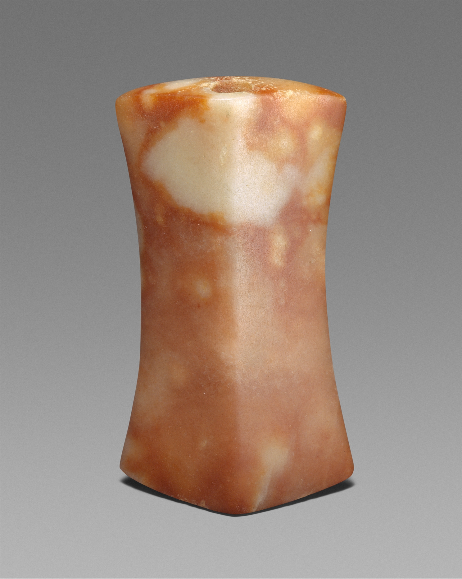 Archaic; Bannerstone; Stone-Implements